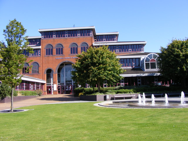 Sandwell Council House The Civic Centre stands in Freeth Street.